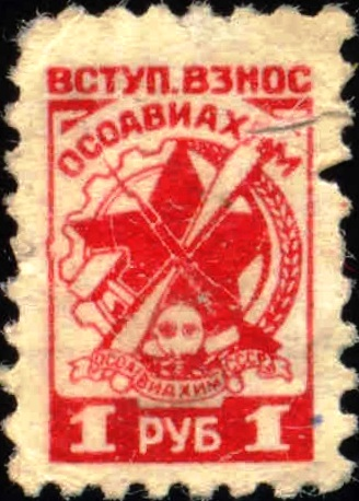 USSR revenue stamp, USSR OSOAVIAKhIM, 1 ruble, 1950-ies (?).